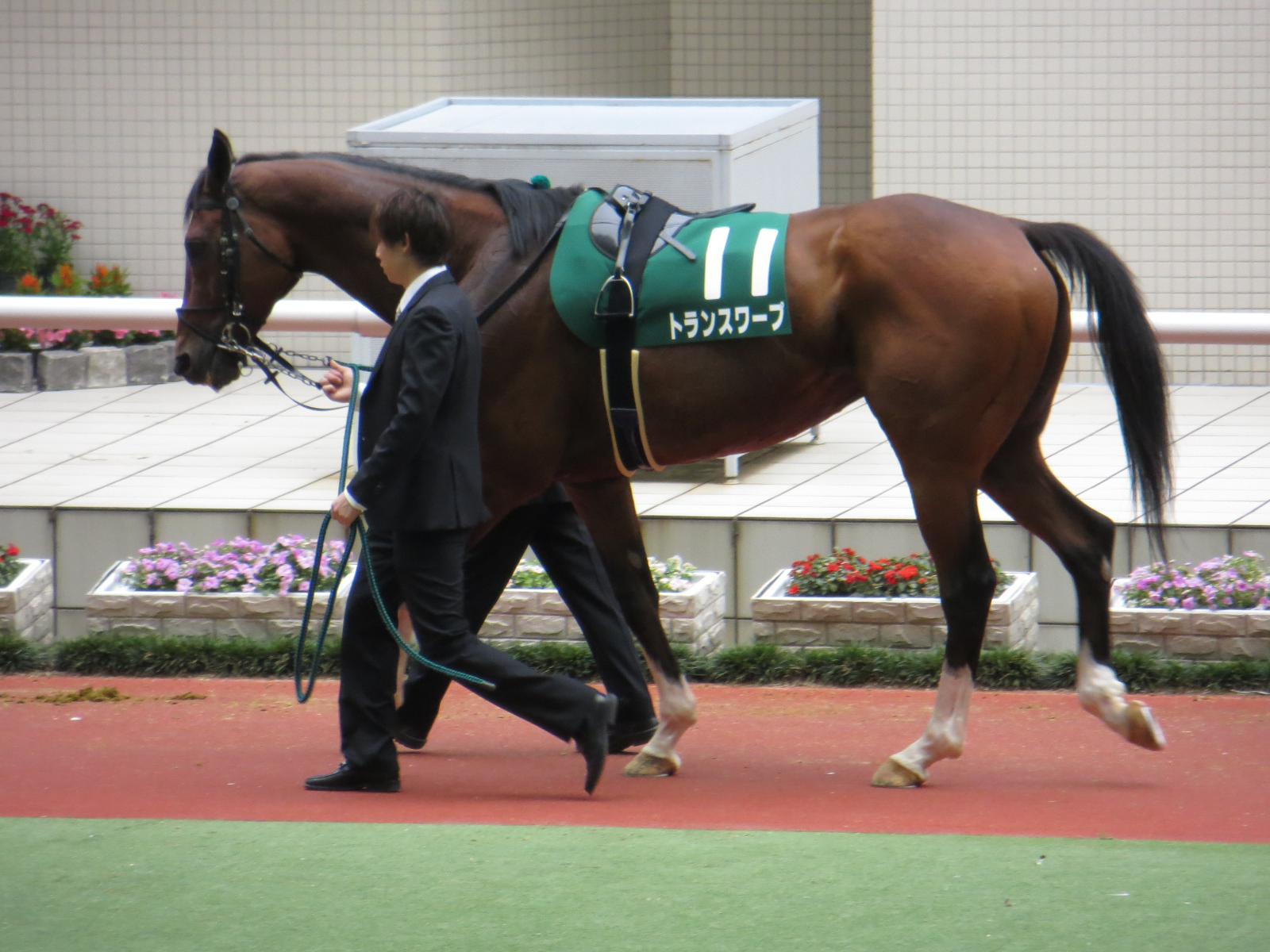 Transwarp (Racehorse of Japan).